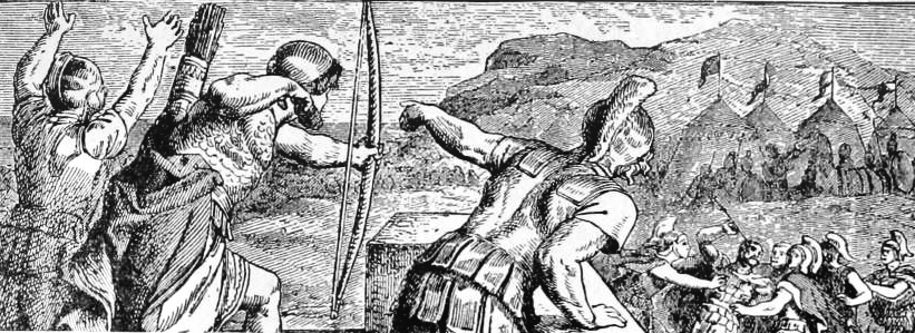 The wounding of Philip